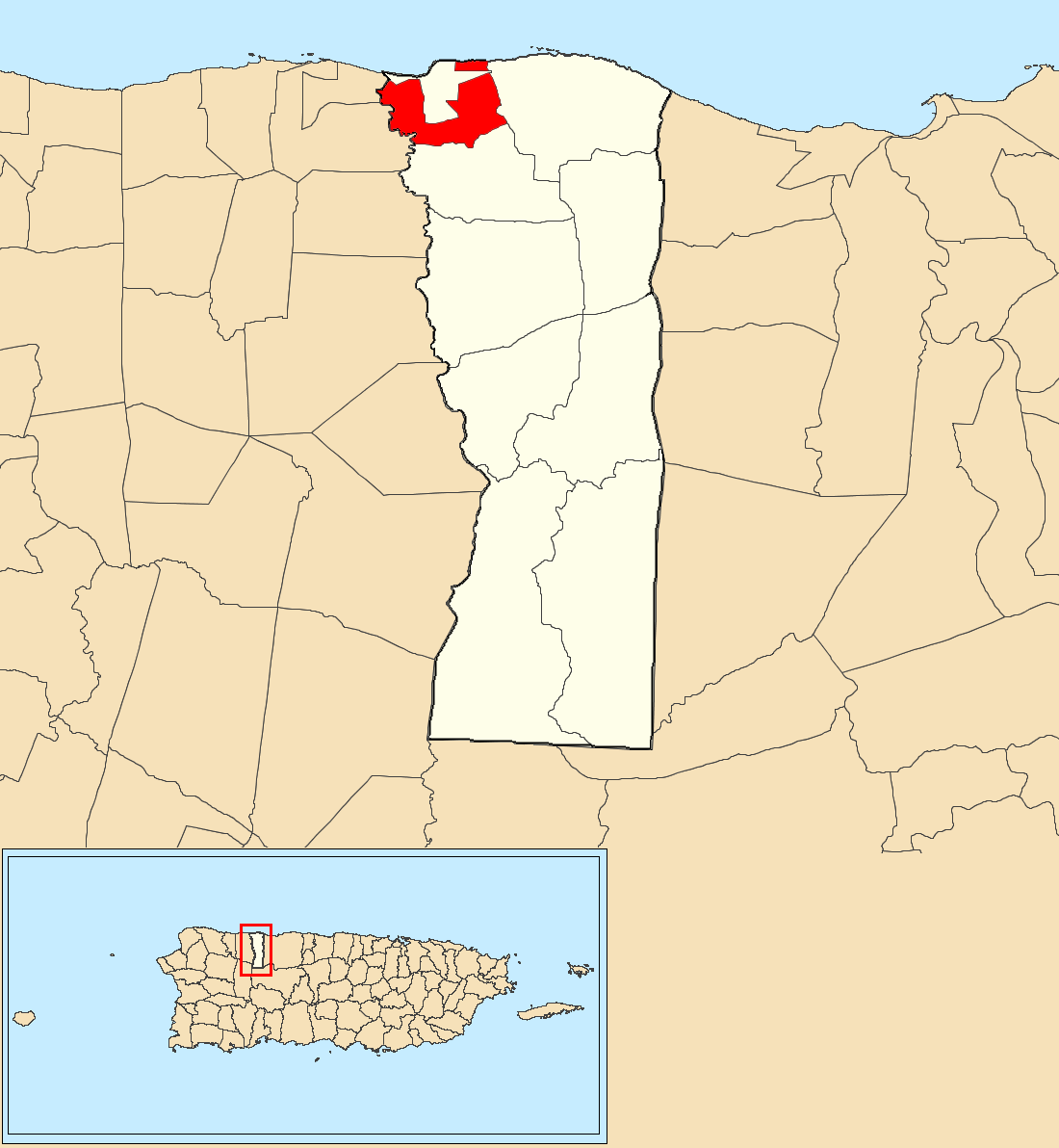 Hatillo, Hatillo, Puerto Rico locator map